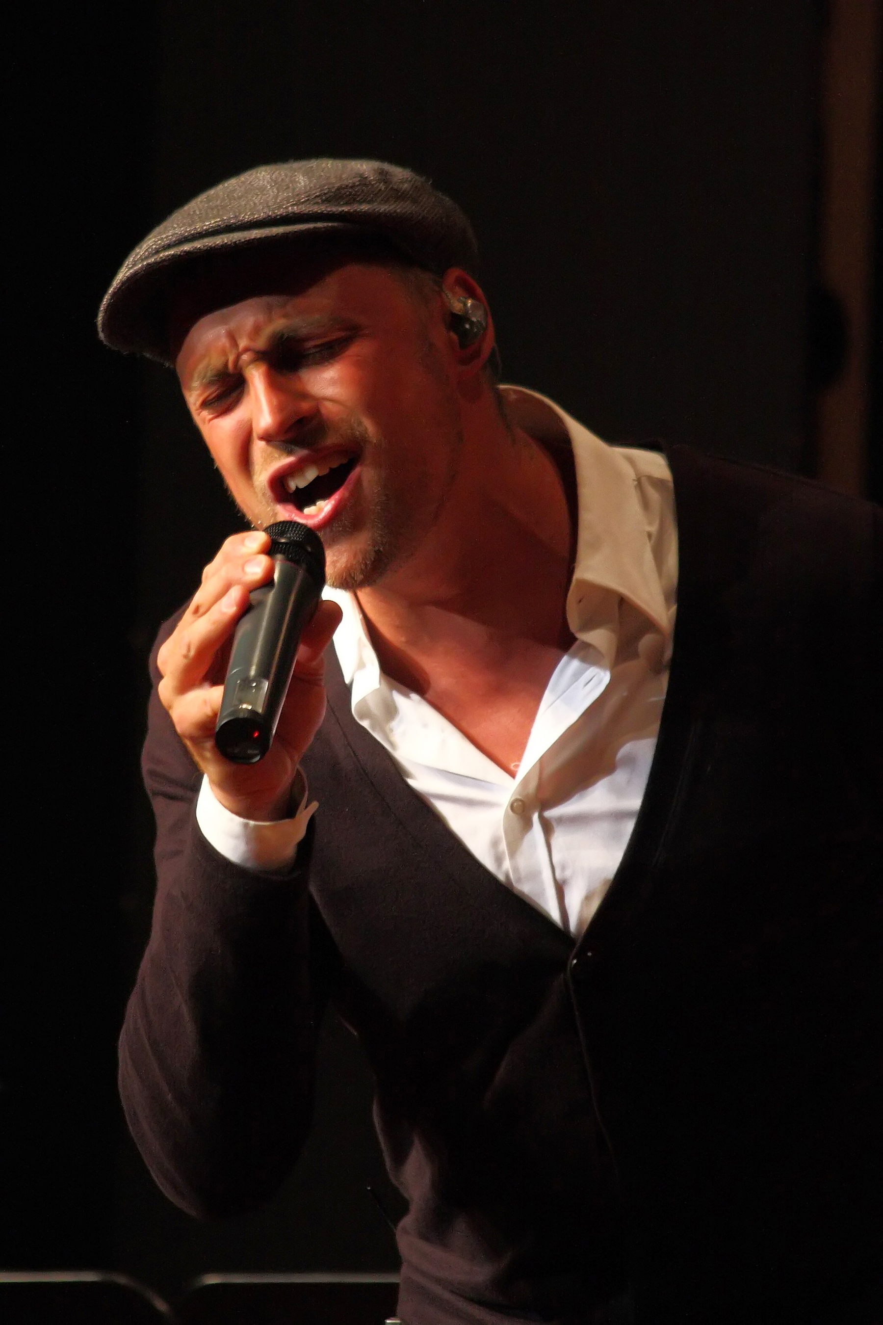 Max Mutzke live